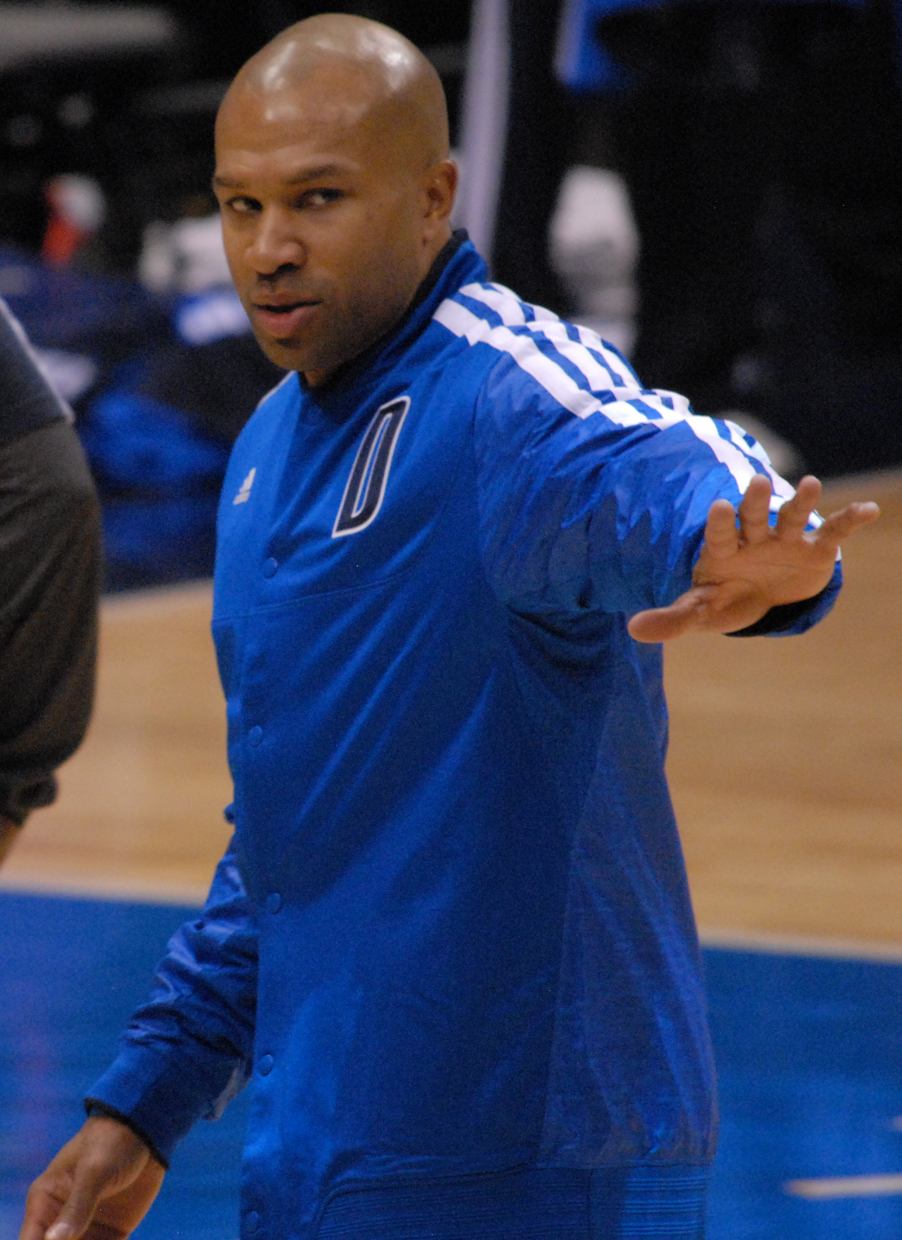 Derek Fisher of the Dallas Mavericks in 2012